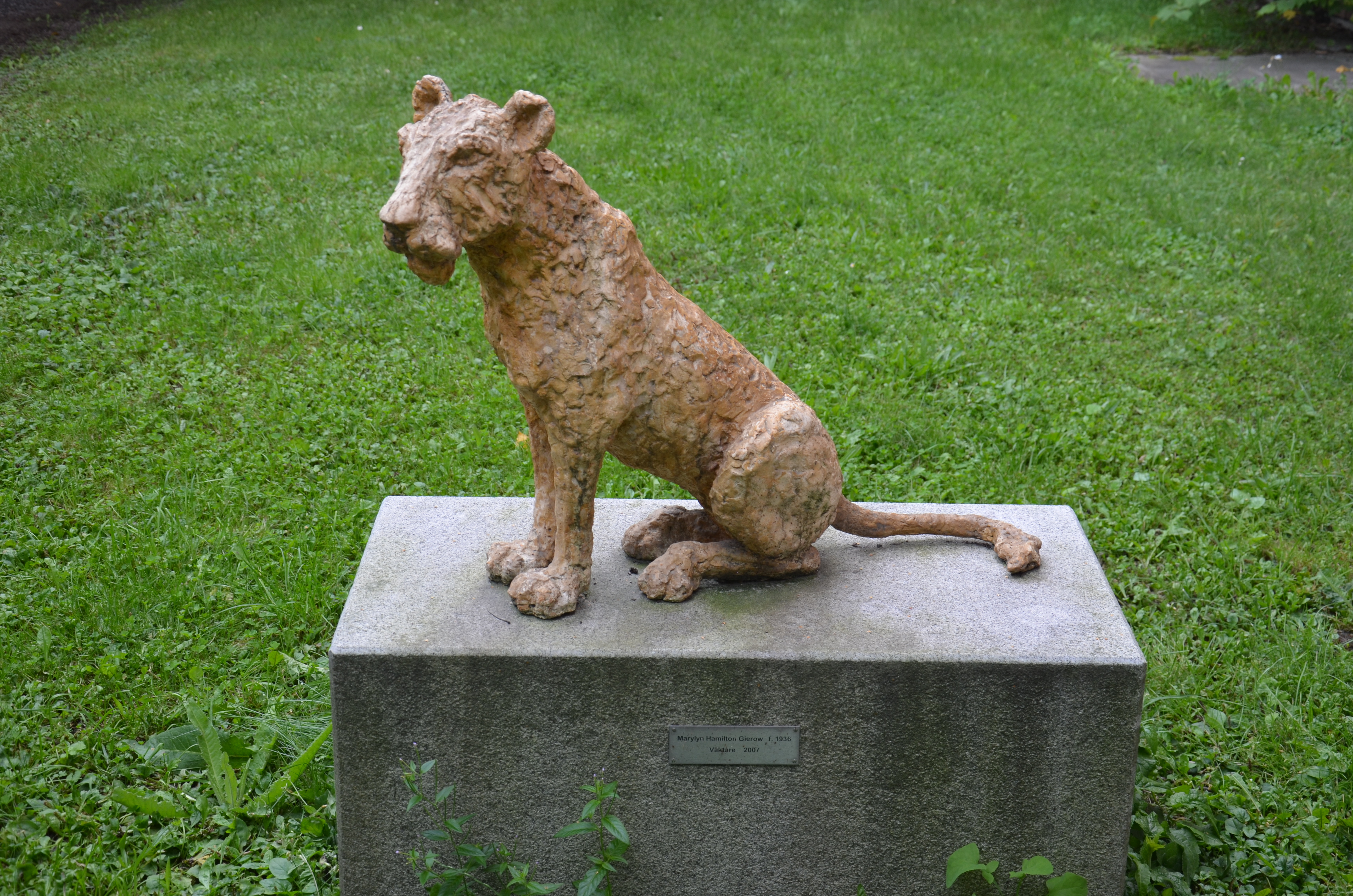 Marylyn Hamilton Gierow' s Väktare, 2007, Karolinska Universitetssjukhuset, barnsjukhuset